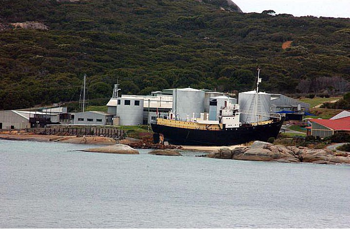 CHEYNE BEACH WHALE STATION; STARTED IN 1952; CLOSED IN 1978 BECAUSE OF INCREASED FUEL COSTS, DWINDLING STOCKS AND ENVIRONMENTAL PRESSURES. IT NOW OPERATES AS A TOURIST ATTRACTION